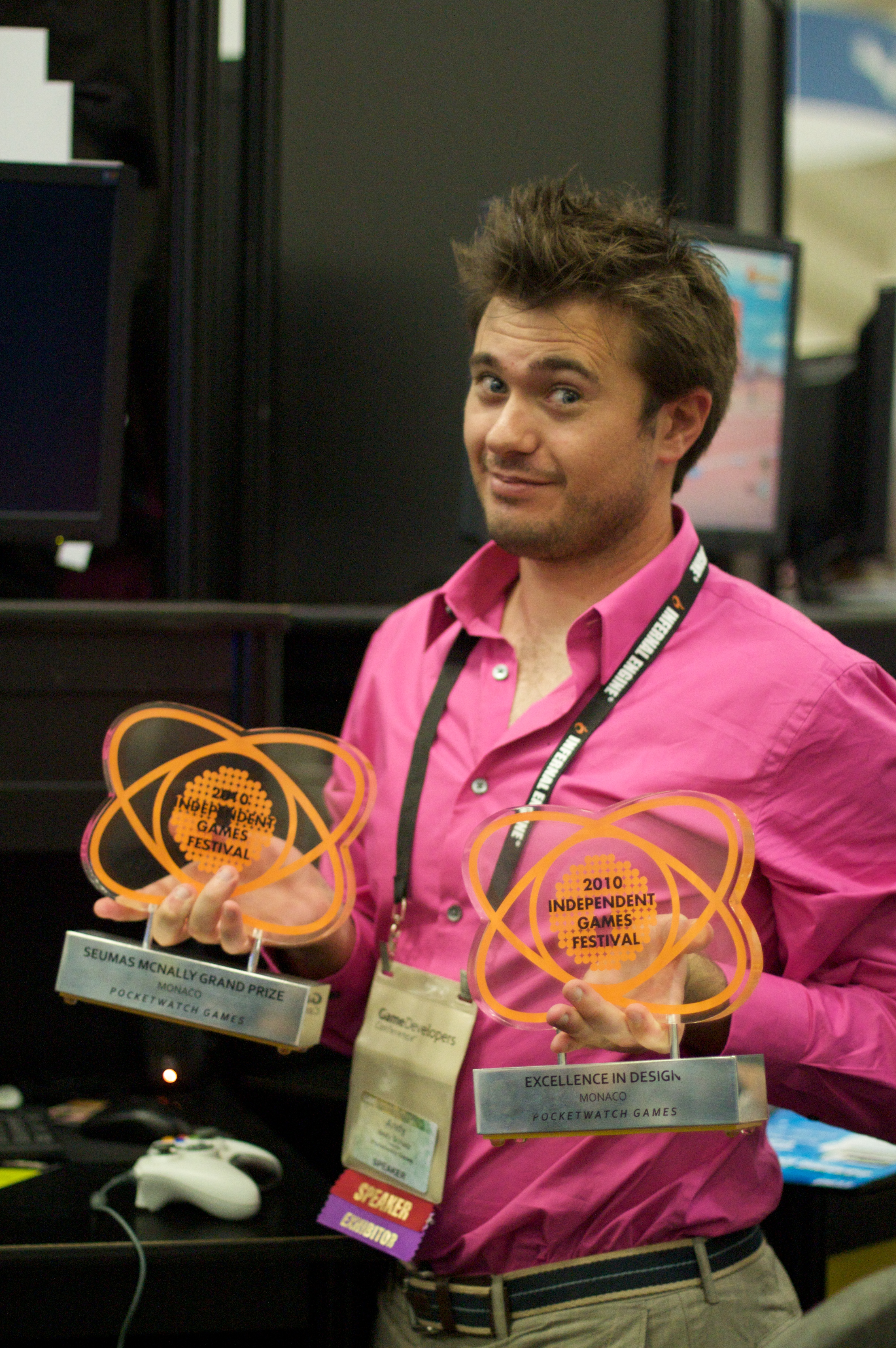 Andy Schatz, after winning two awards at the Independent Games Festival in 2010.